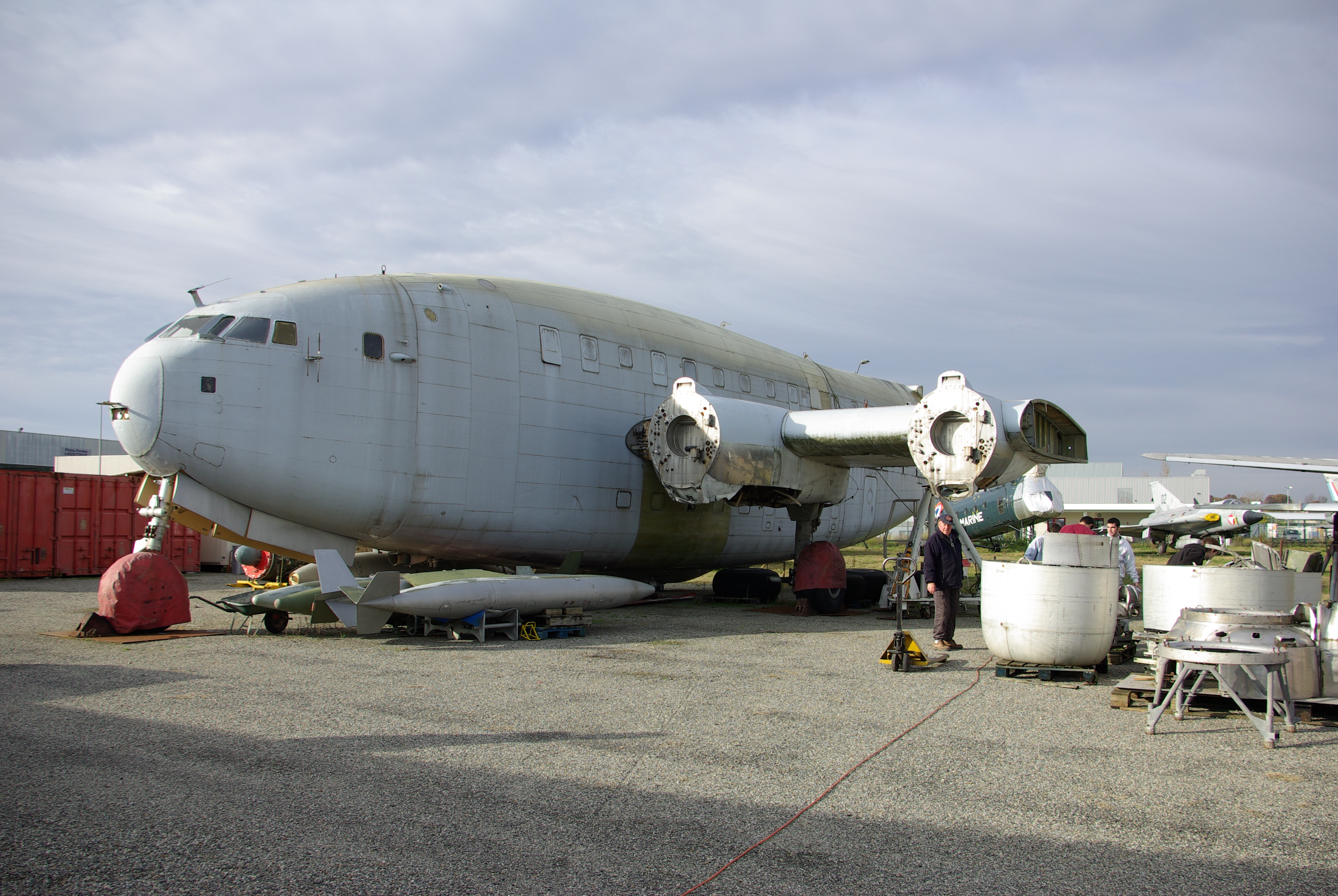 The Breguet 765 Sahara being restored by the musée des ailes anciennes (Toulouse, France)